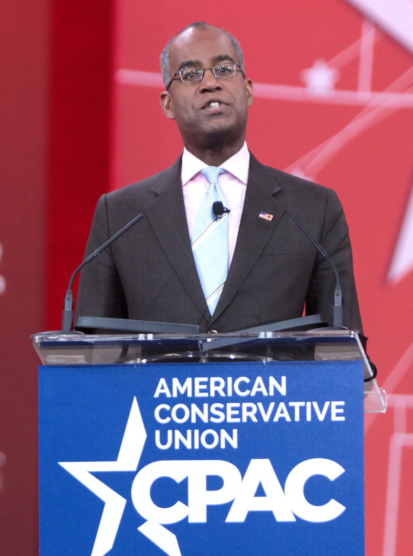 Ron Christie speaking at an event in Washington, D.C.